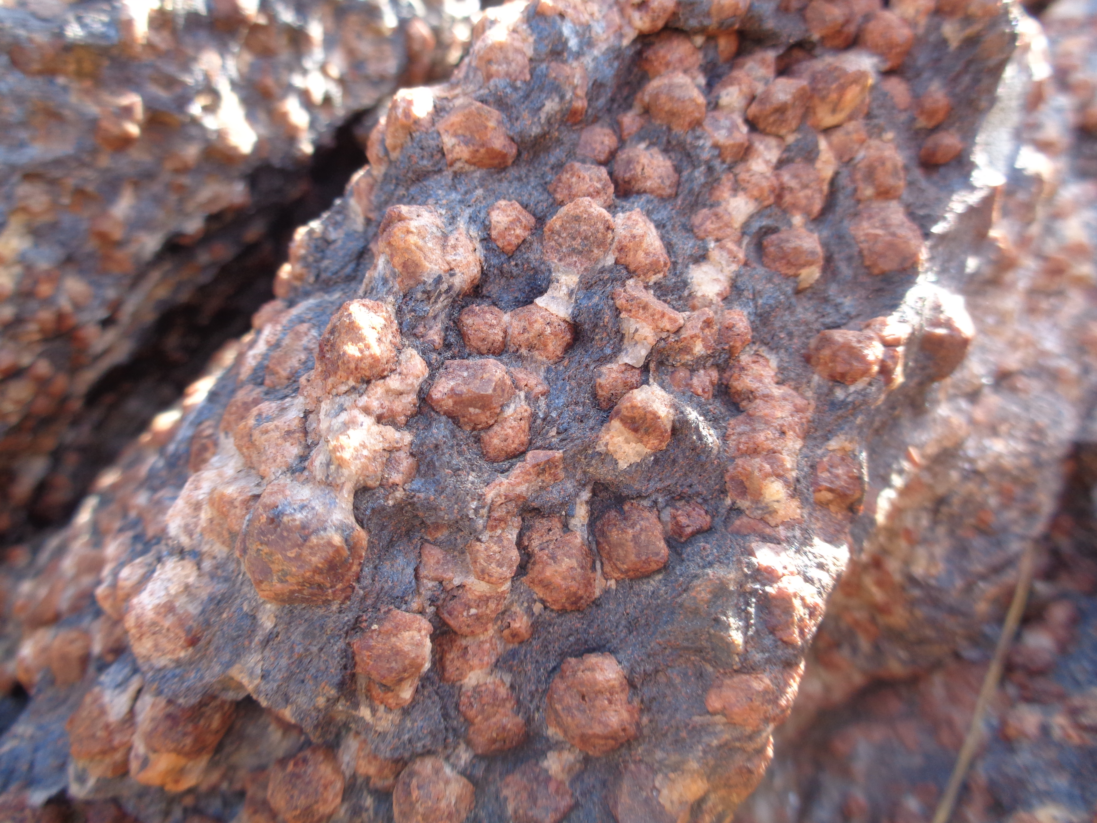 Metamorphic Rock of High Pressure. Red minerals are garnets and are about 0.5 cm. The blue color of the surrounding matrice is mainly due to the presence of glaucophane. This image was uploaded as part of European Science Photo Competition 2015.